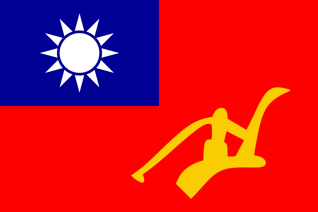 Re-upload under a different name. Improved version of Plough Flag used by left Kuomintang.